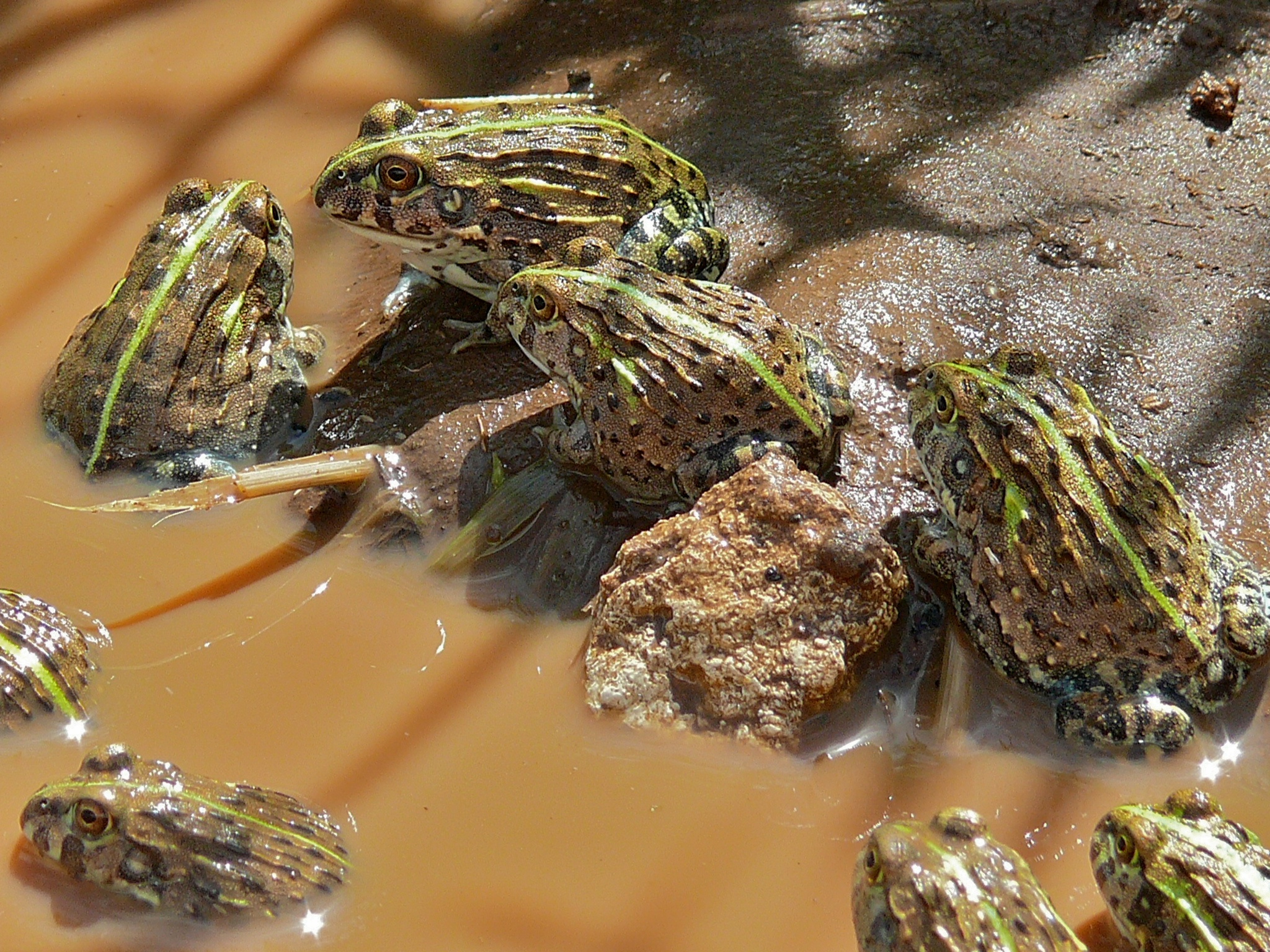 Juvenile African bullfrogs beside the S63 near Pafuri, Kruger NP, SOUTH AFRICA